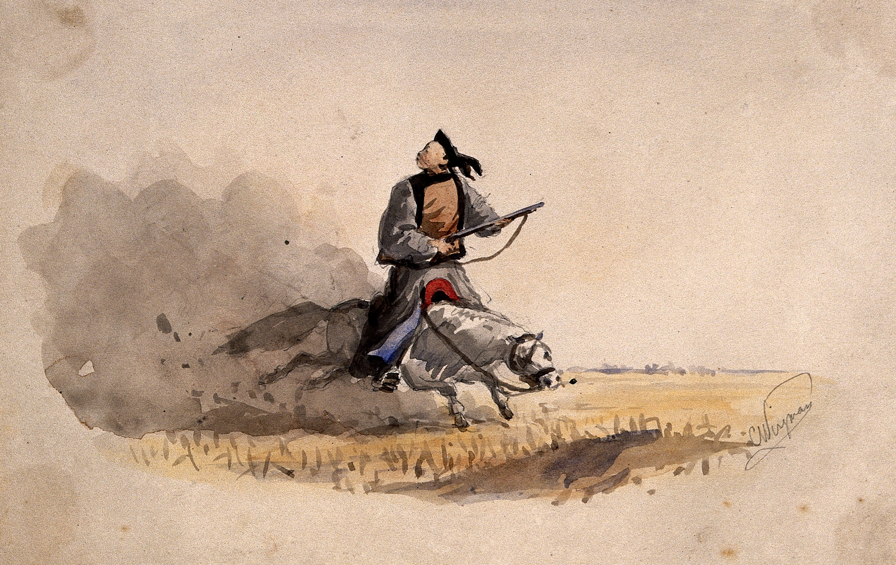 A Chinese soldier bearing weapons on his back, riding a horse Iconographic Collections Keywords: Horses; Horse; Felice A. Beato; Arrow War; Military History; Weapons; Anglo Chinese War; Second Opium War; China; Riding; Qing Dynasty